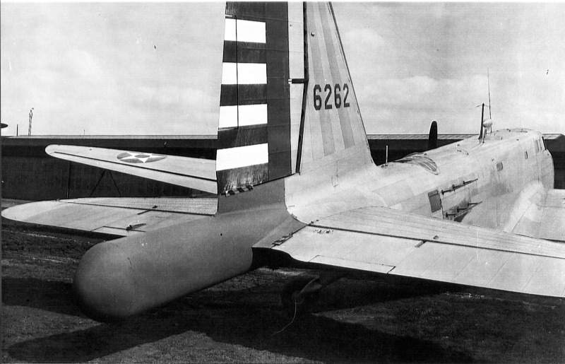 PictionID:46703264 - Catalog:16_007850 - Title:Douglas B-18 36-262 MAD tests - Filename:16_007850.tif - Image from the Ray Wagner Collection. Ray Wagner was Archivist at the San Diego Air and Space Museum for several years and is an author of several books on aviation --- ---Please Tag these images so that the information can be permanently stored with the digital file.---Repository: San Diego Air and Space Museum